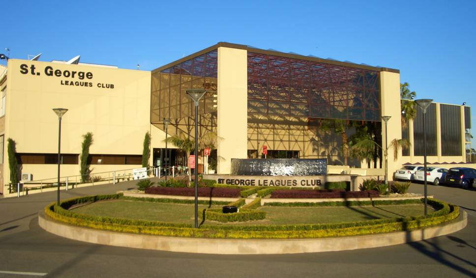 St George Leagues Club, Sydney, Australia. I took the photo on 9th July 2006. J Bar 00:15, 26 July 2006